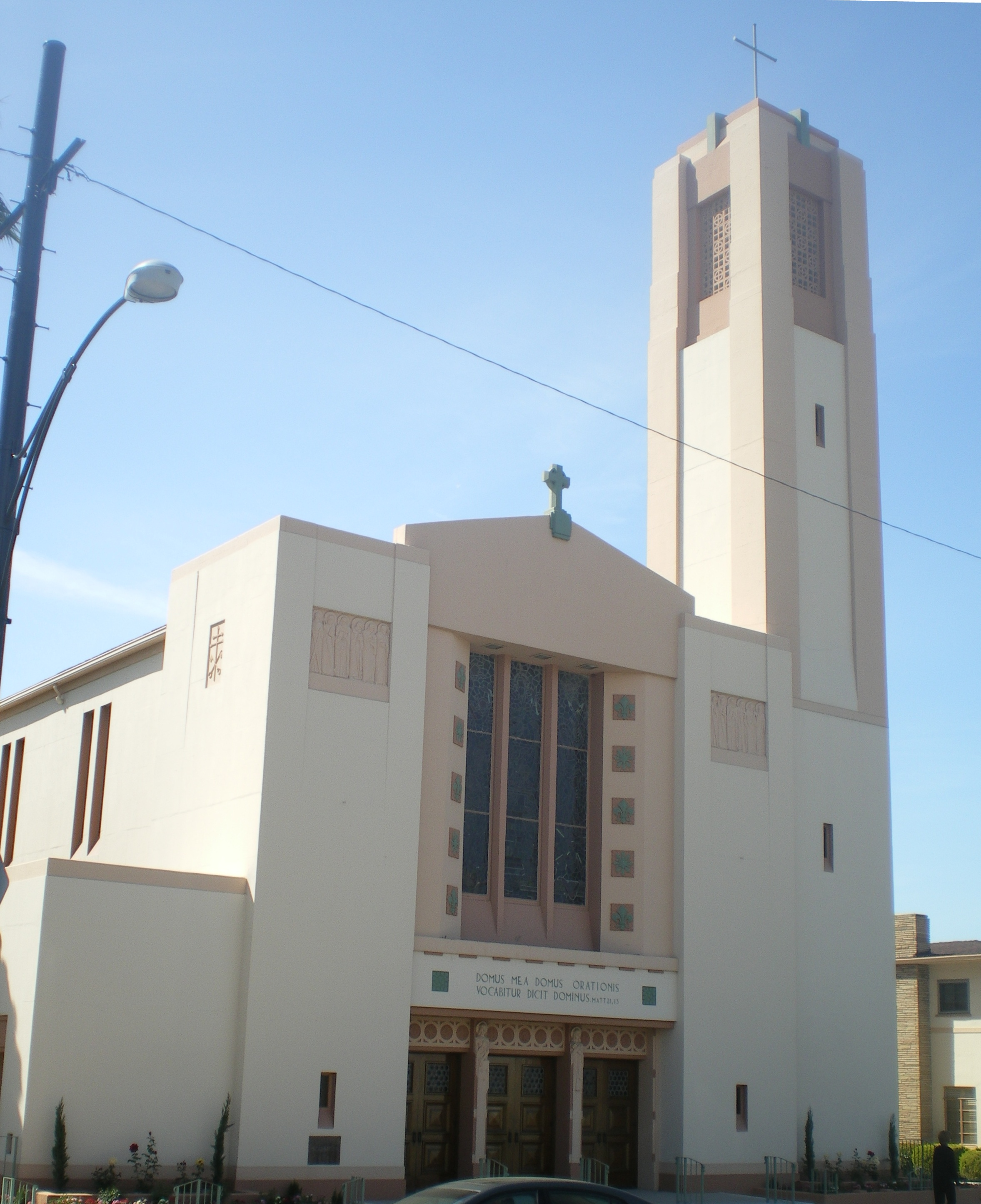 Incarnation Catholic Church Front (Glendale, California) Incarnation Catholic Church(Glendale, California).